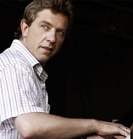 Carsten Dahl, pianist